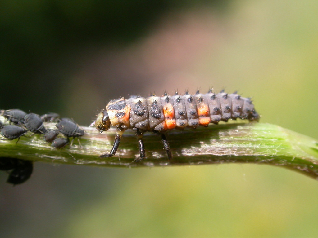 Larvae of the 7 spot ladybird eating aphids